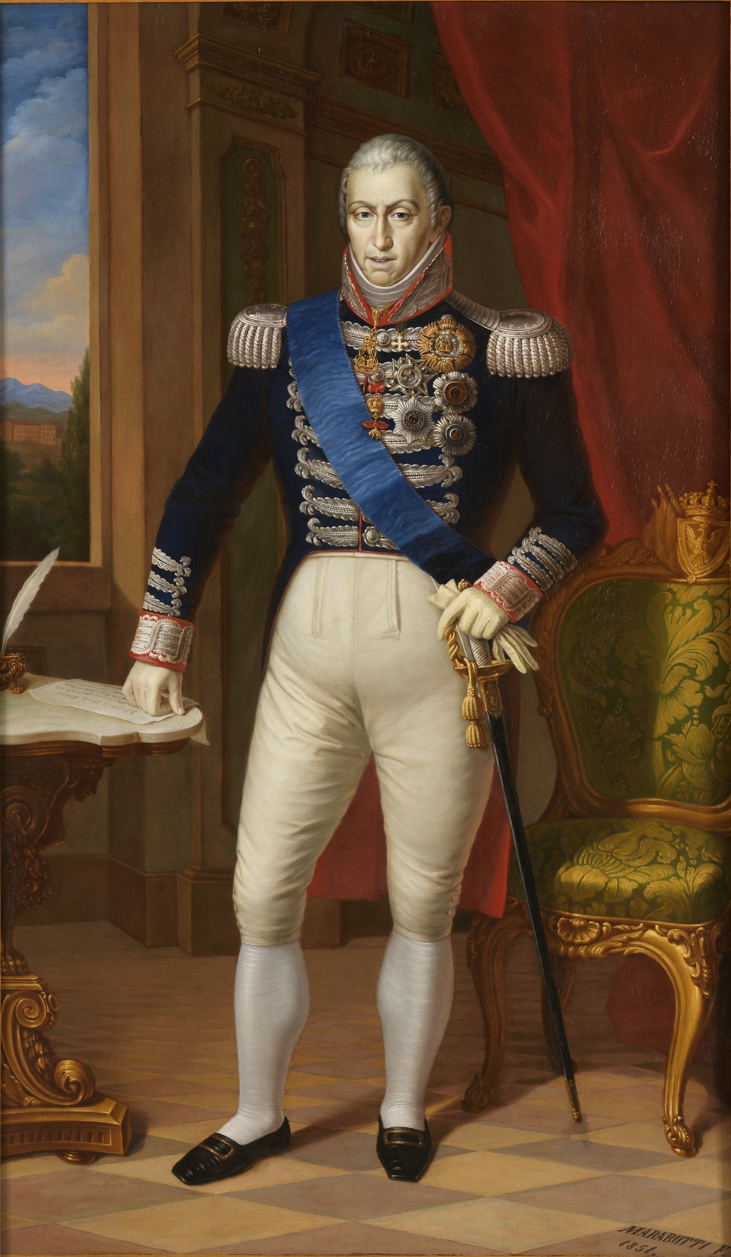 portait of Carlo Felice